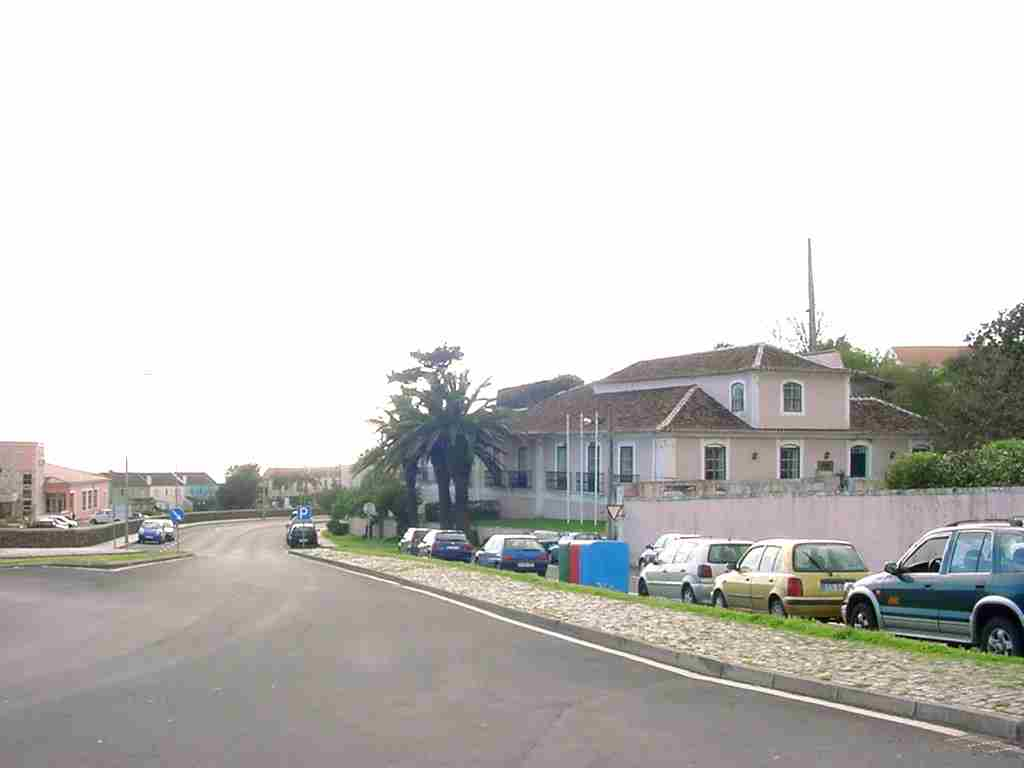 Solar dos Meireles, fachada, Portões de São Pedro, Angra do Heroísmo, ilha Terceira, Açores, Portugal